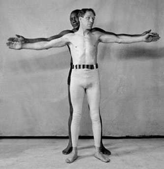 Full-length group portrait of Jack Johnson, African American pugilist, standing behind pugilist Joe Choynski in front of a light-colored backdrop in a room in Chicago, Illinois. Both Johnson and Choynski are extending their arms at their sides.